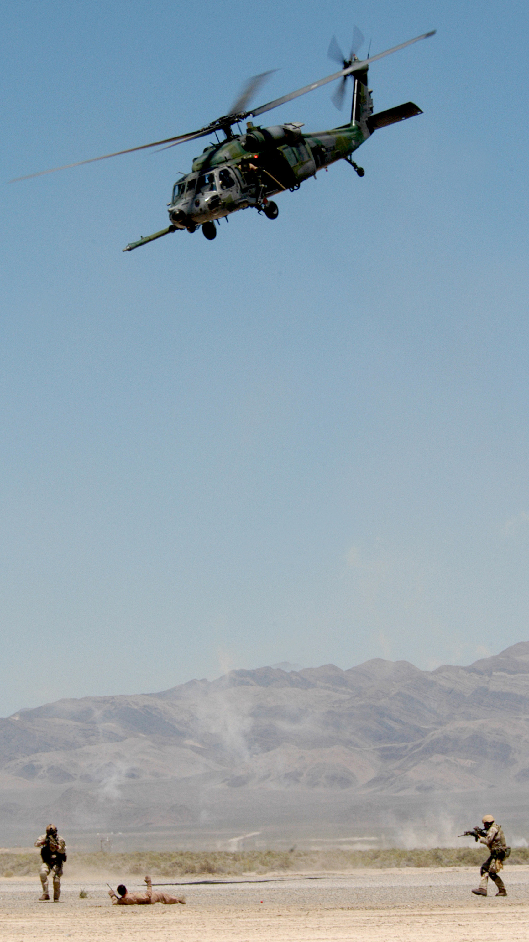 An HH-60G Pave Hawk hovers as pararescuemen from the 58th Rescue Squadron move in to retrieve a downed pilot during a firepower demonstration on the bombing range here May 12.